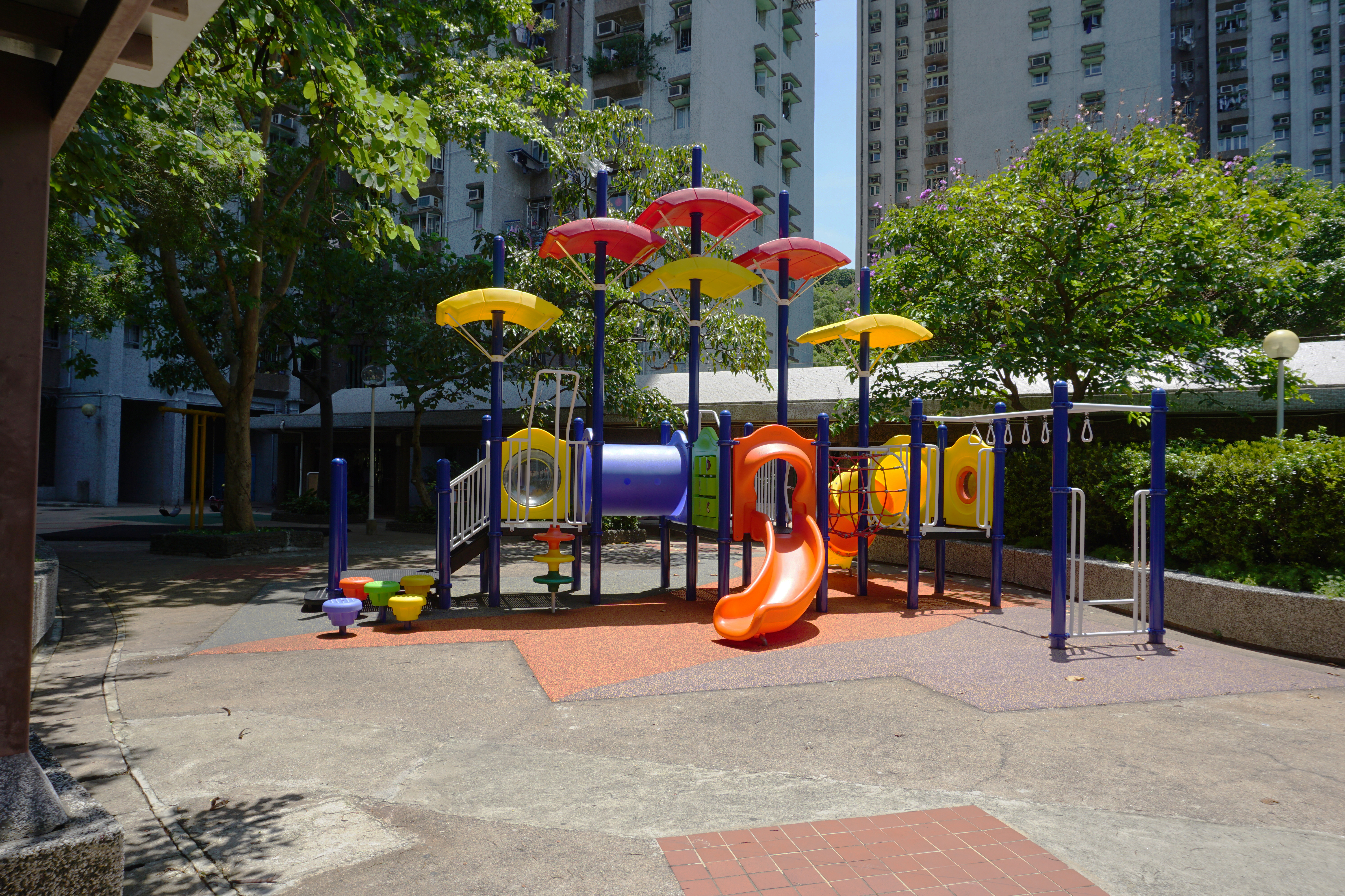 Ching Wah Court in Tsing Yi, Hong Kong.